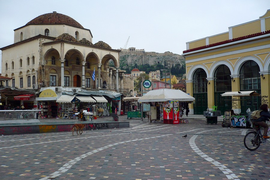 Monastiraki square